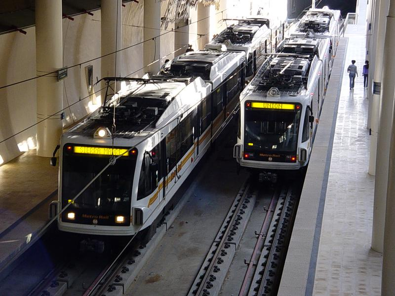 Metro Gold Line trains at Memorial Park Station in Pasadena, California from English Wikipedia. Salaam Allah took this photo from the Memorial Park Station in Pasadena, California. Memorial Park is to the right and the Holly Street Apartments are directly above the tracks. The station is in a "trench" coming from below grade tunnel underneath Downtown Pasadena. The camera is facing south. North of here, the train goes into another tunnel underneath the eastbound side of the 210 Freeway making its way into the center of the 210 Freeway. As of this picture upload, the train only goes as far as Sierra Madre Villa in Pasadena, California. According to MTA's web site, future expansions will provide service into the east side of Los Angeles County and possibly into Ontario Airport.